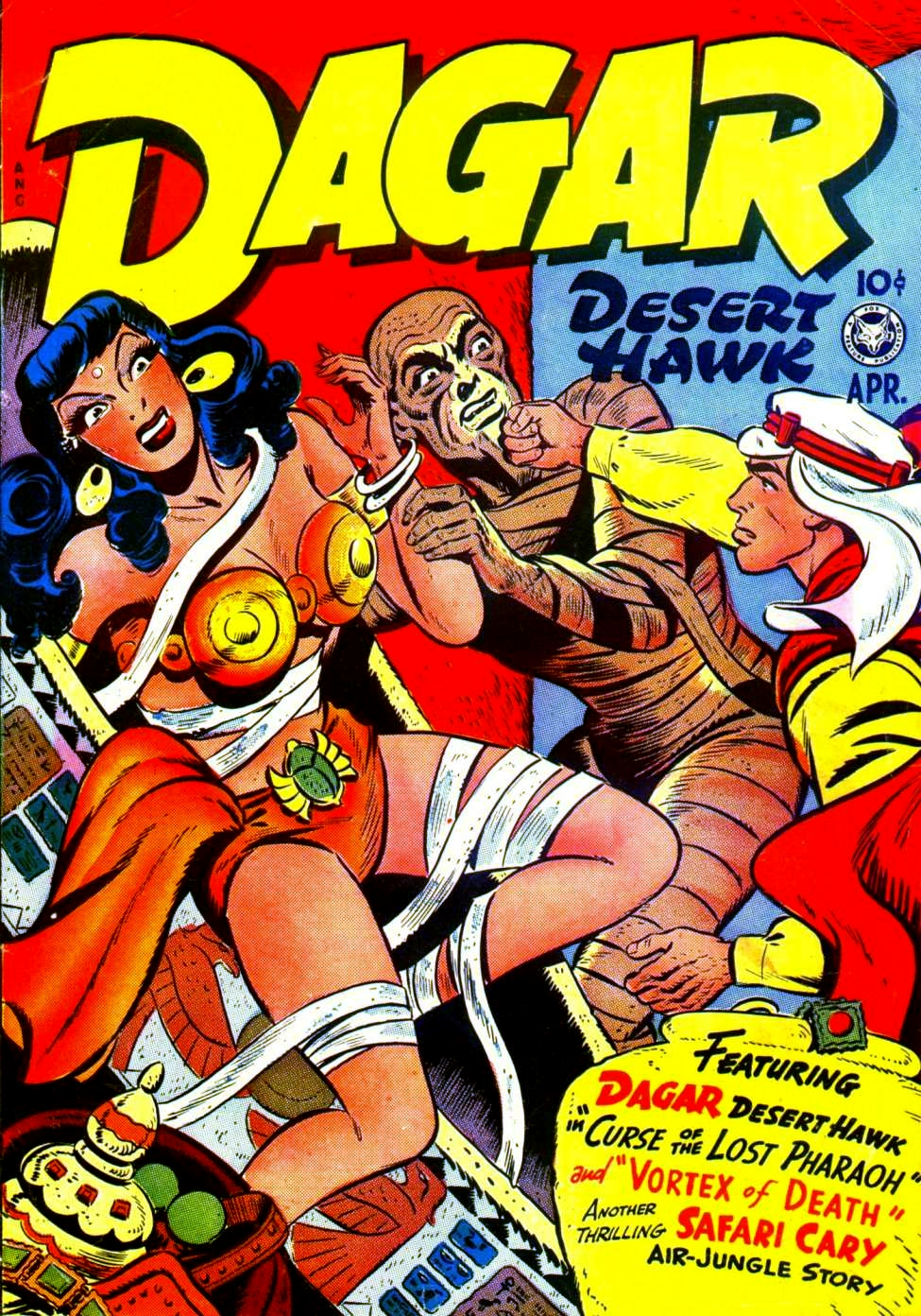 Cover, Dagar #15 (1948 - Fox Feature Syndicate (defunct company). Cover art by